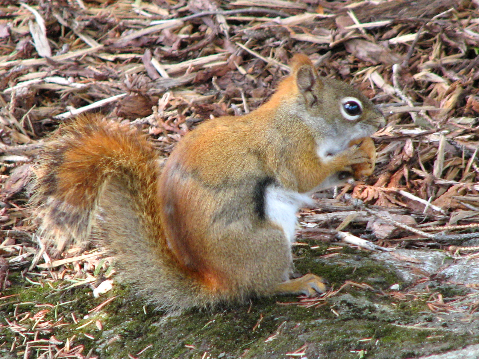 American red squirrel (Tamiasciurus hudsonicus) taken in Gatineau Park, Quebec